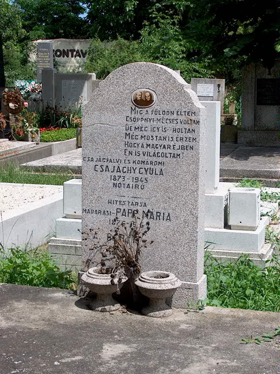 Gyula Csajághy grave in the Szeder cemetery in Szentes